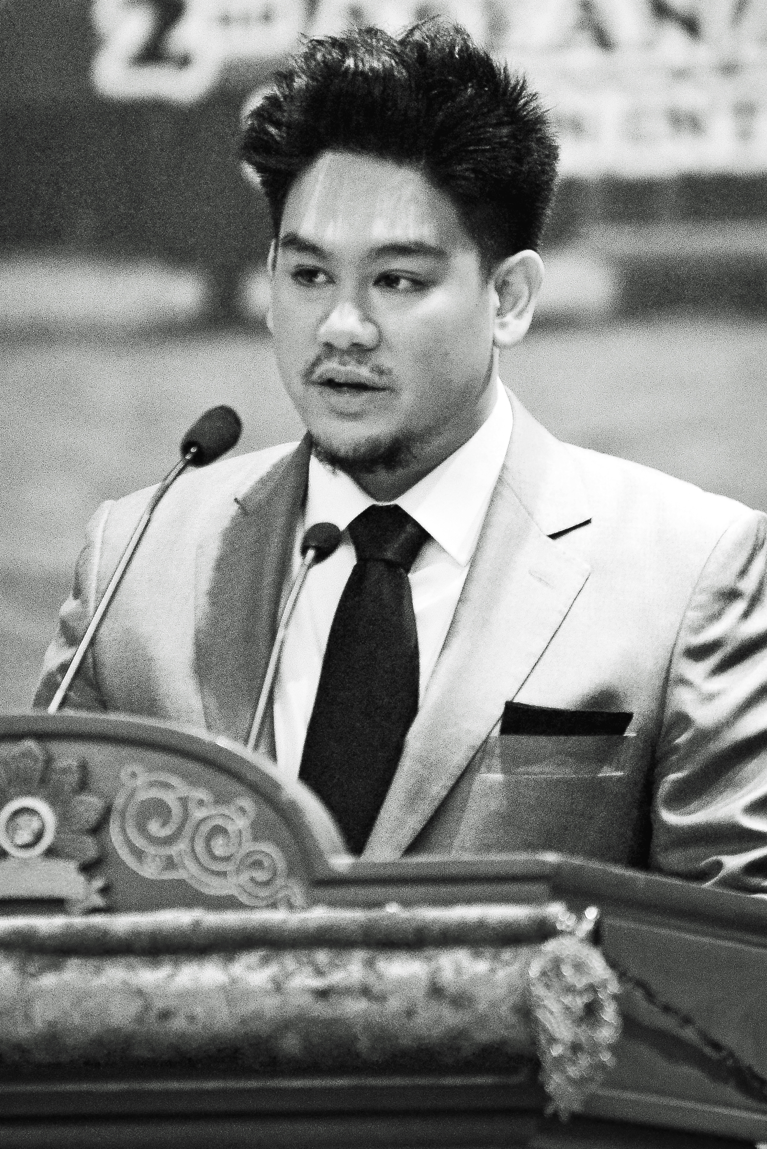 Prince Azim giving his speech at the 2nd ASEAN Autism Network Congress, 2013, in Brunei Darussalam.